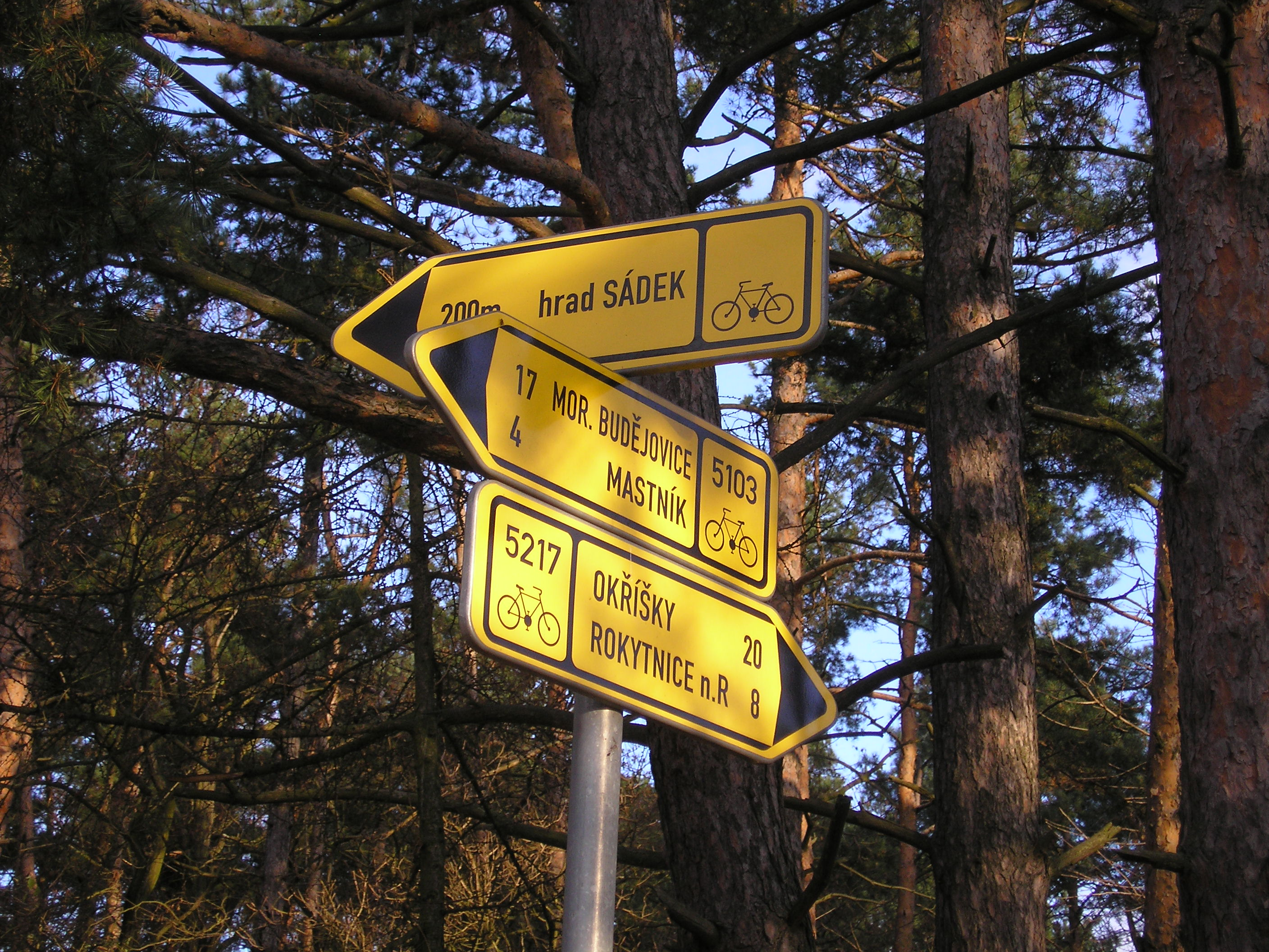 Signpost of Cycleway 5217 near castle Sádek in the Czech republic